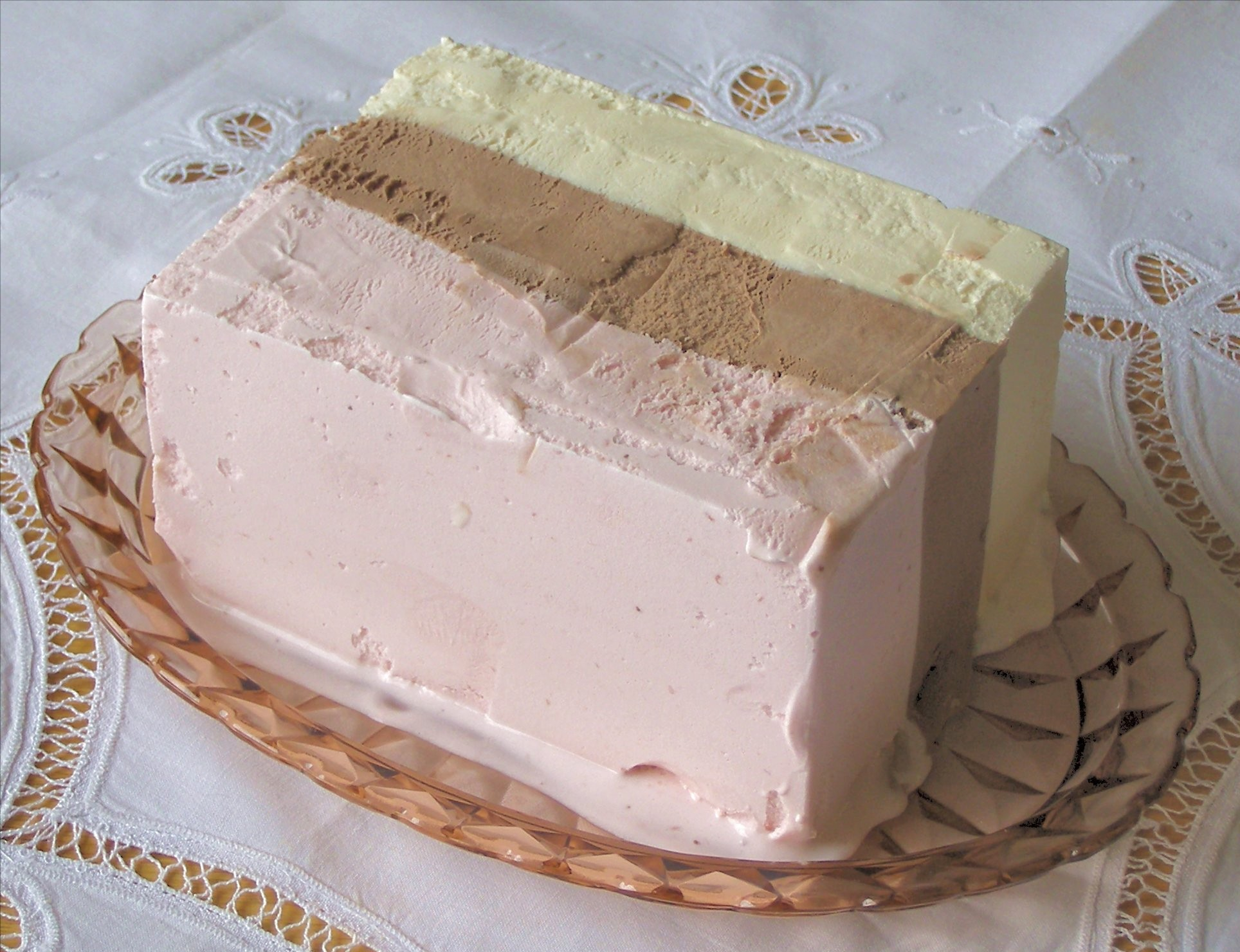 Block of neapolitan ice cream, taken by me. And yes, I later ate it. Best $2.50 I ever spent on Wikipedia.